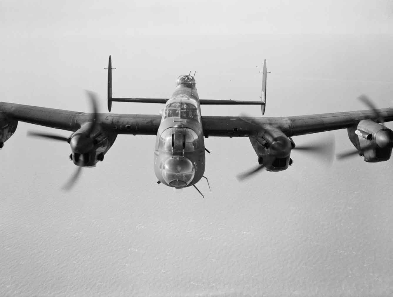 A Lancaster Mk III of No. 619 Squadron on a test flight from RAF Coningsby, 14 February 1944. A Lancaster III of No 619 Squadron, based at Coningsby, 14 February 1944.